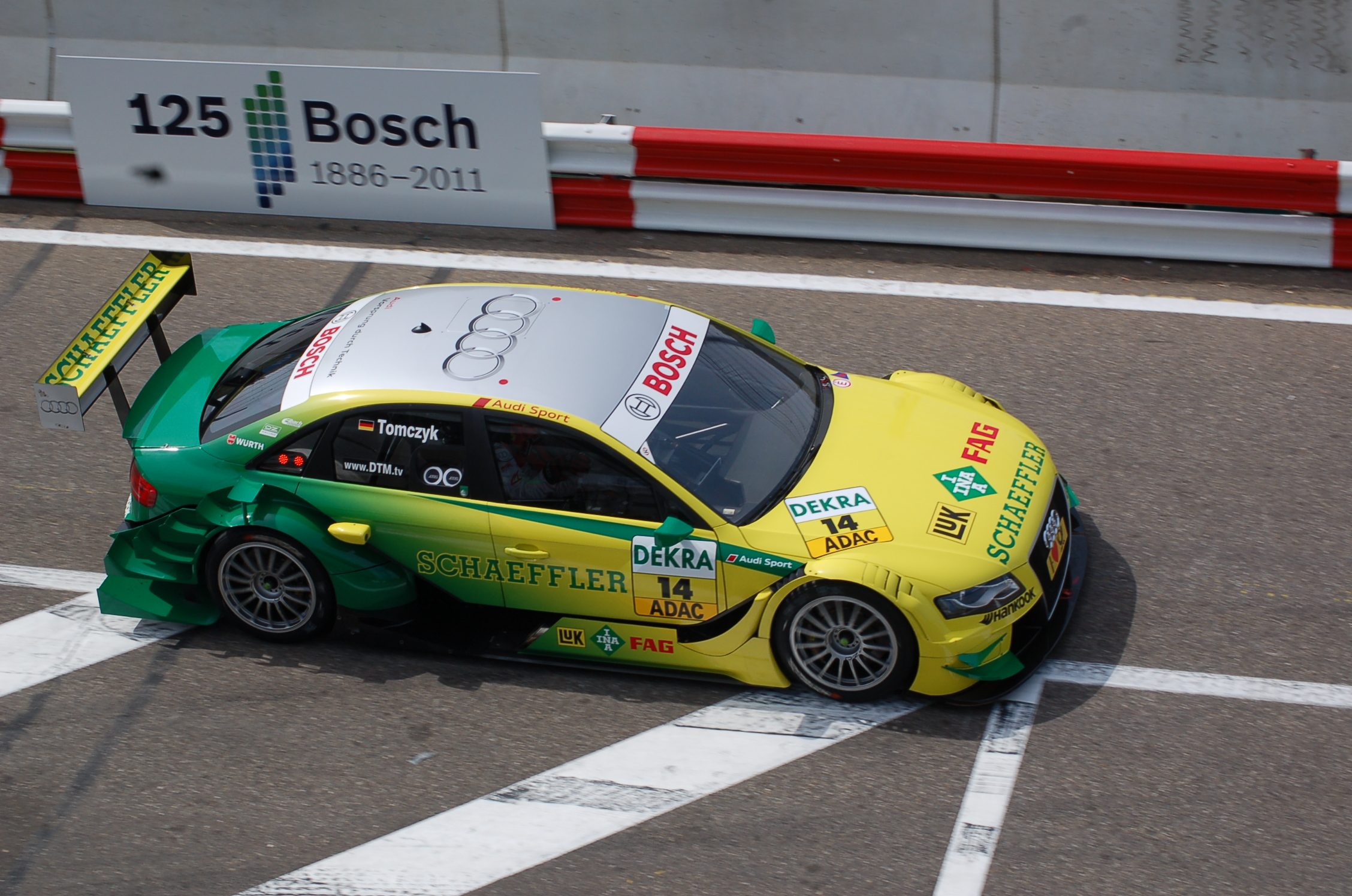 Martin Tomczyk's DTM-Car 2011